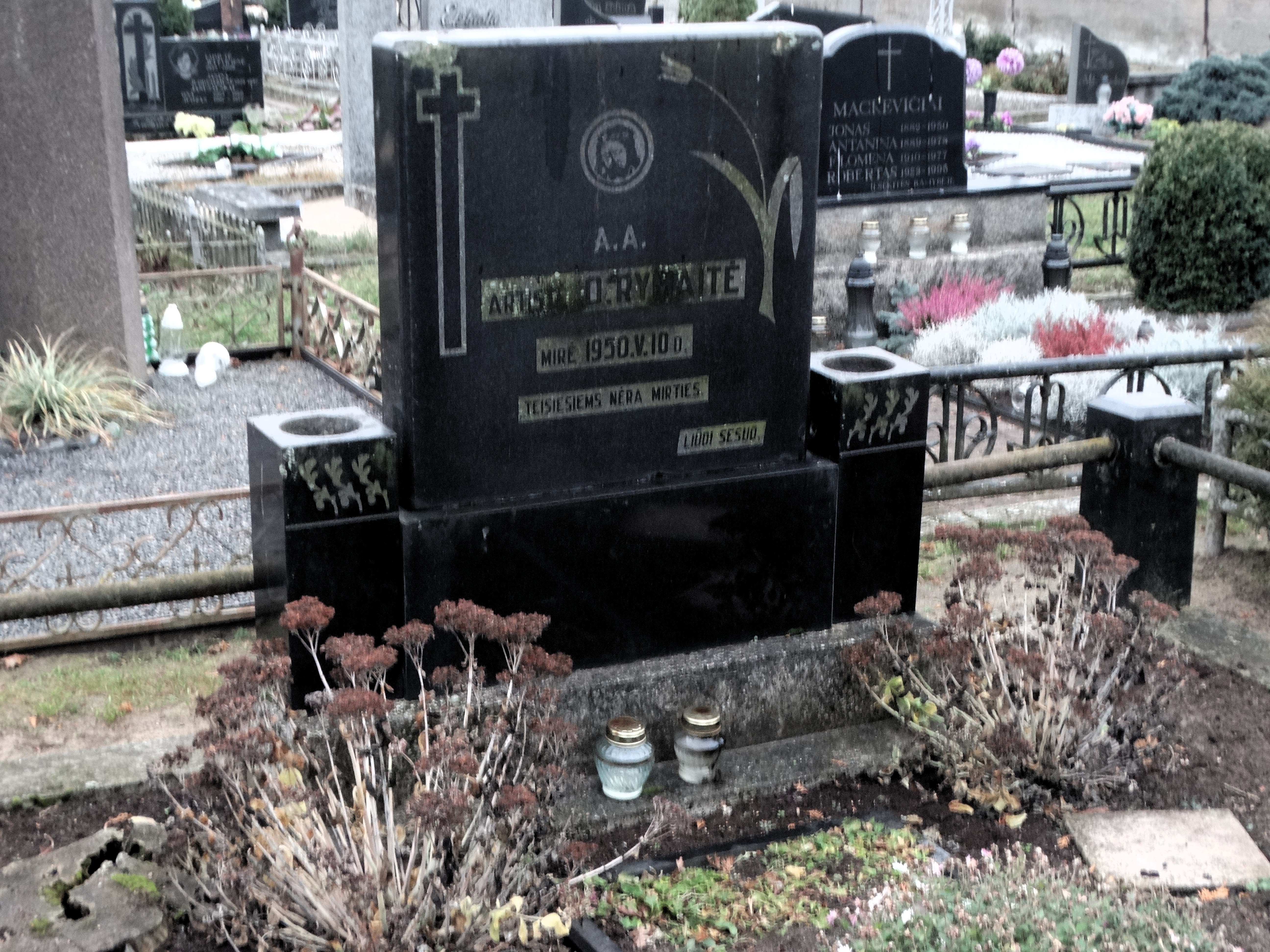 Tomb of Ona Rymaitė, cemetery in Panemunė, Kaunas, Lithuania